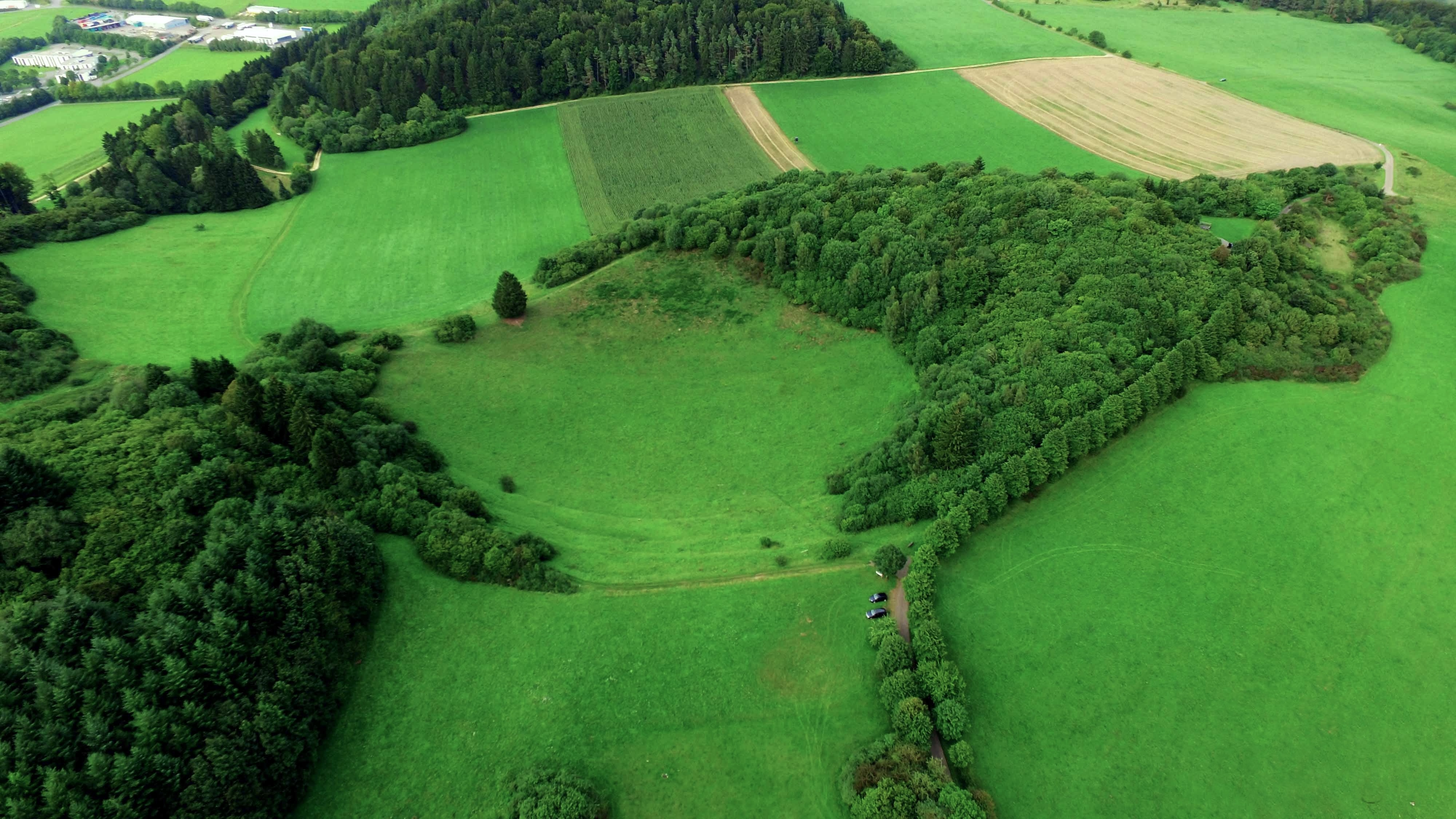 Aerial photography of the Papenkaule